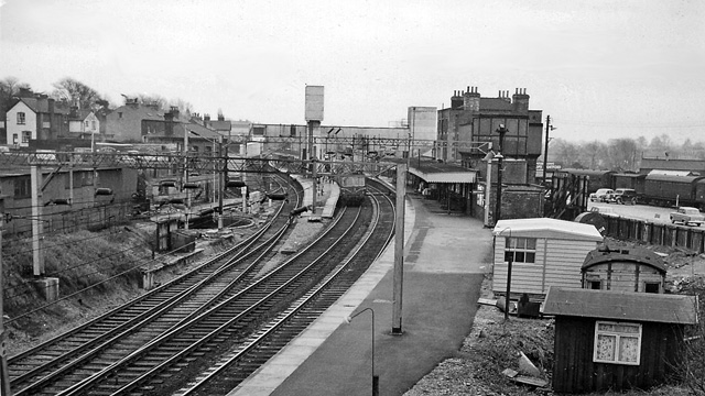 Bishop's Stortford Station. View S, towards London; ex-GE Liverpool St. - Cambridge main line, junction of branch to Braintree and Witham. Branch closed to Braintree 3/3/52 to passengers, to goods in stages to 17/2/72. Meanwhile the main line from London had been electrified by 11/60, hence the electric train in the Up platform.